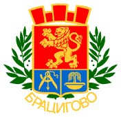 Coat of arms of Bratzigovo, Bulgaria